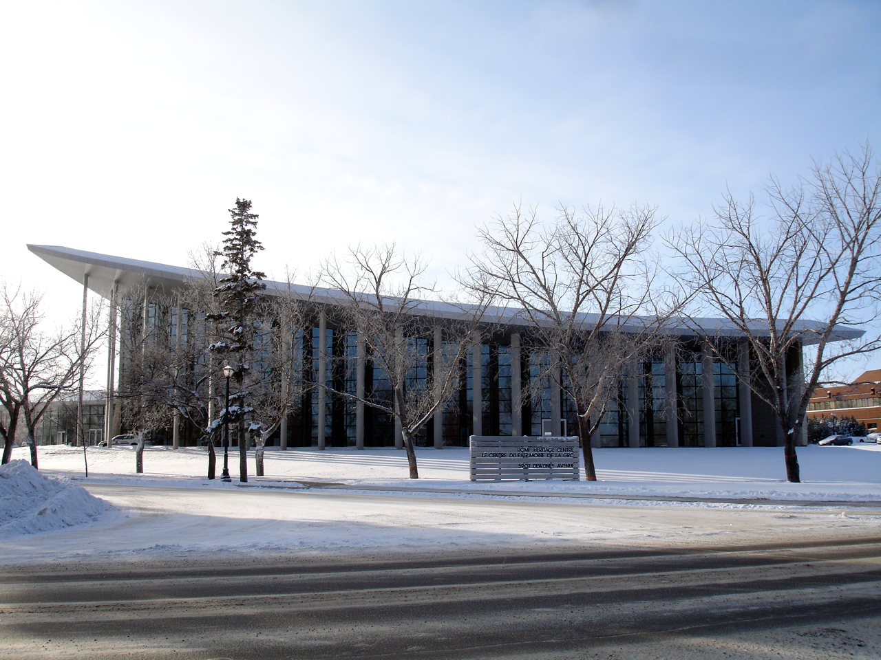 The RCMP Heritage Centre in Regina, Saskatchewan. Designed by Canadian architect Arthur Erickson, this building is a museum for the Royal Canadian Mounted Police.